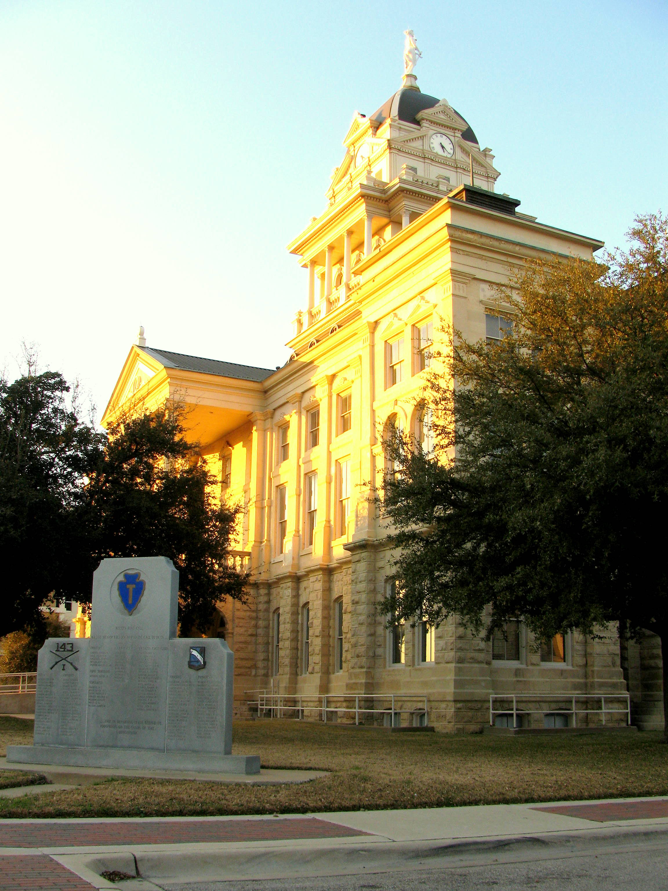 The Bell County, Texas Courthouse in Belton, Texas at 31° 3'21.26"N 97°27'49.31"W. See also Belton Courthouse (1).jpg